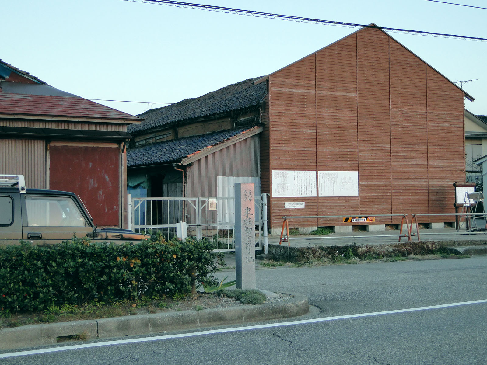 The begining place of Rice Riots of 1918 in Japan.